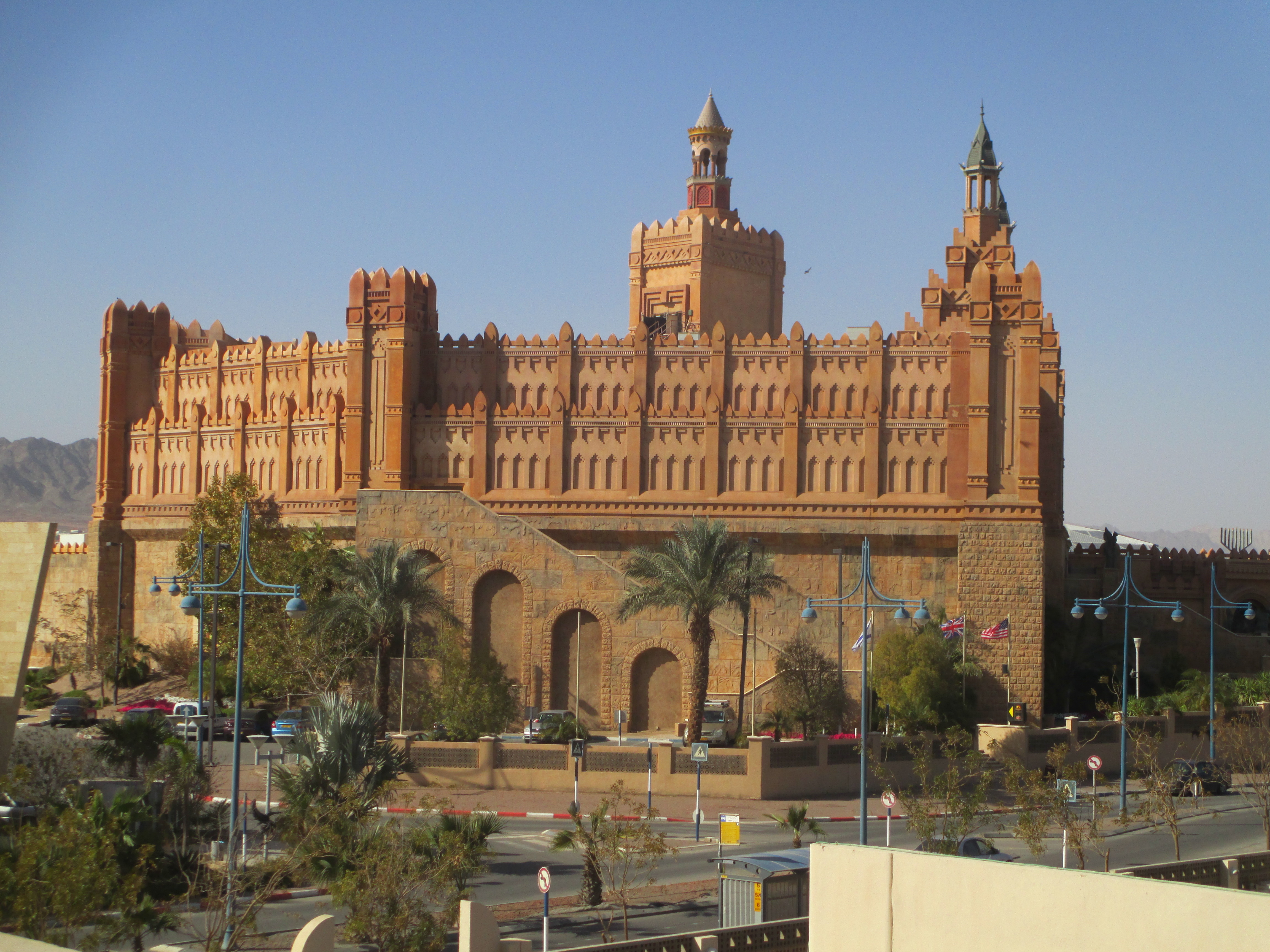 Kings City in Eilat